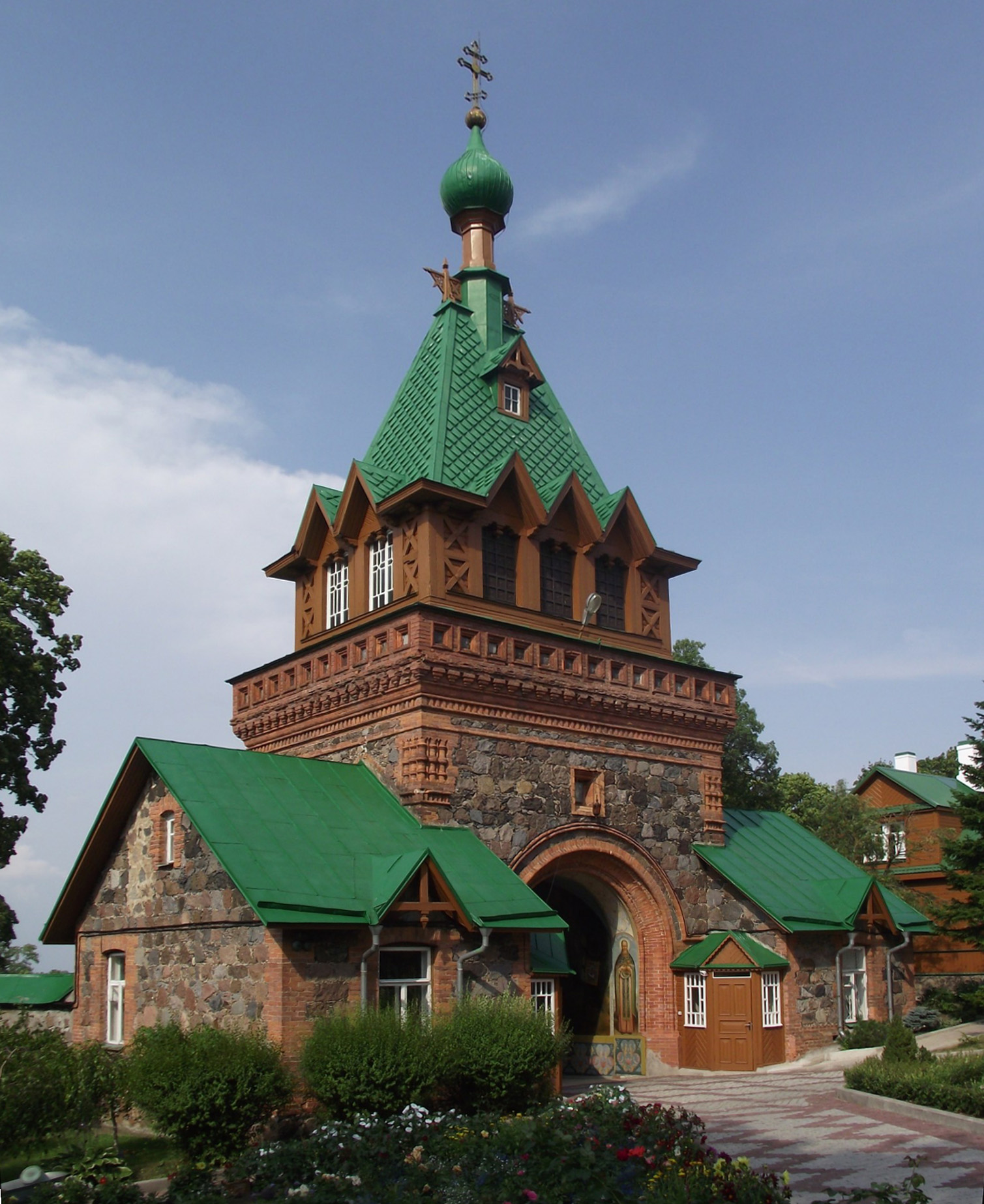 Gate of the Pühtitsa Convent.